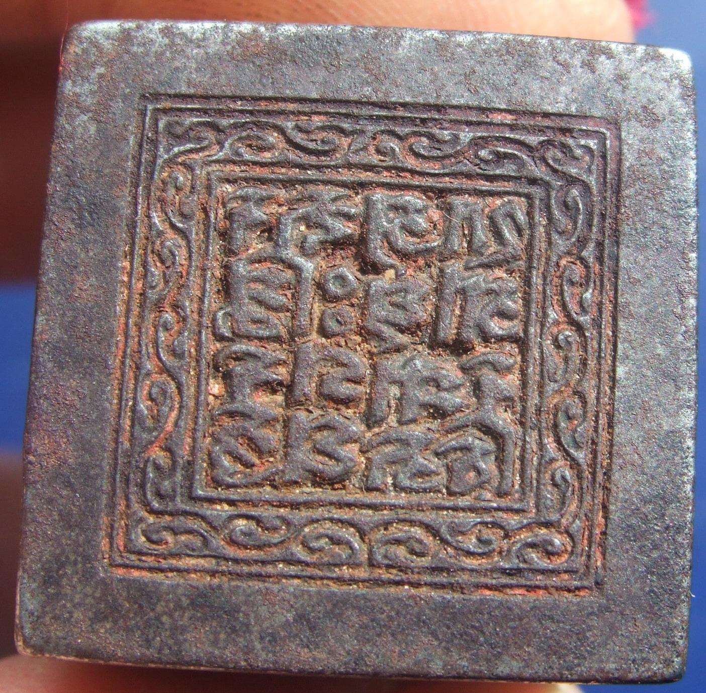 Tibetan seal with inscription in Lantsa (Ranjana), no. 12